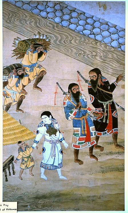 Ainus on a Matsumae border customs